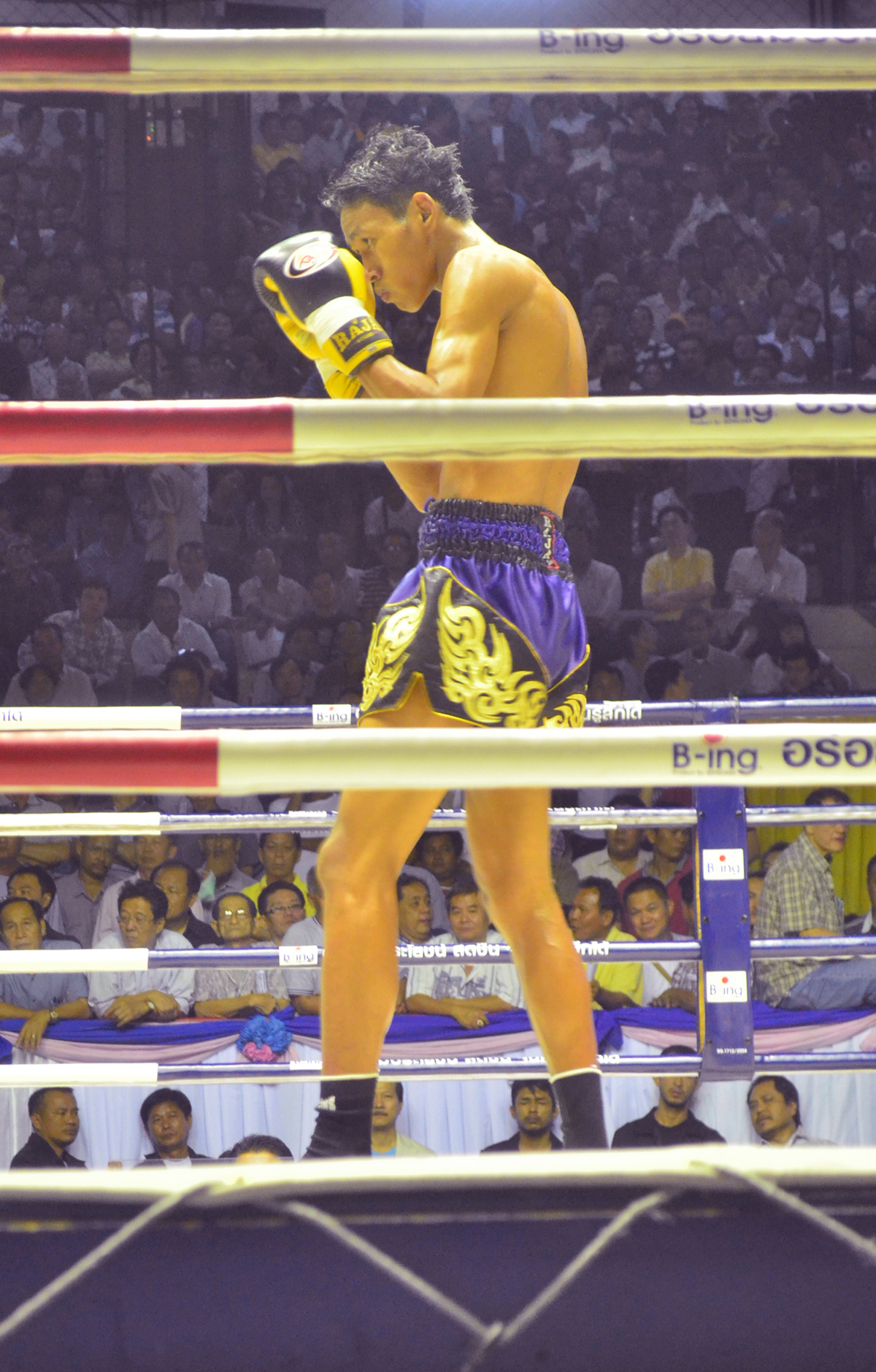 Sornnarai Sor Sommai